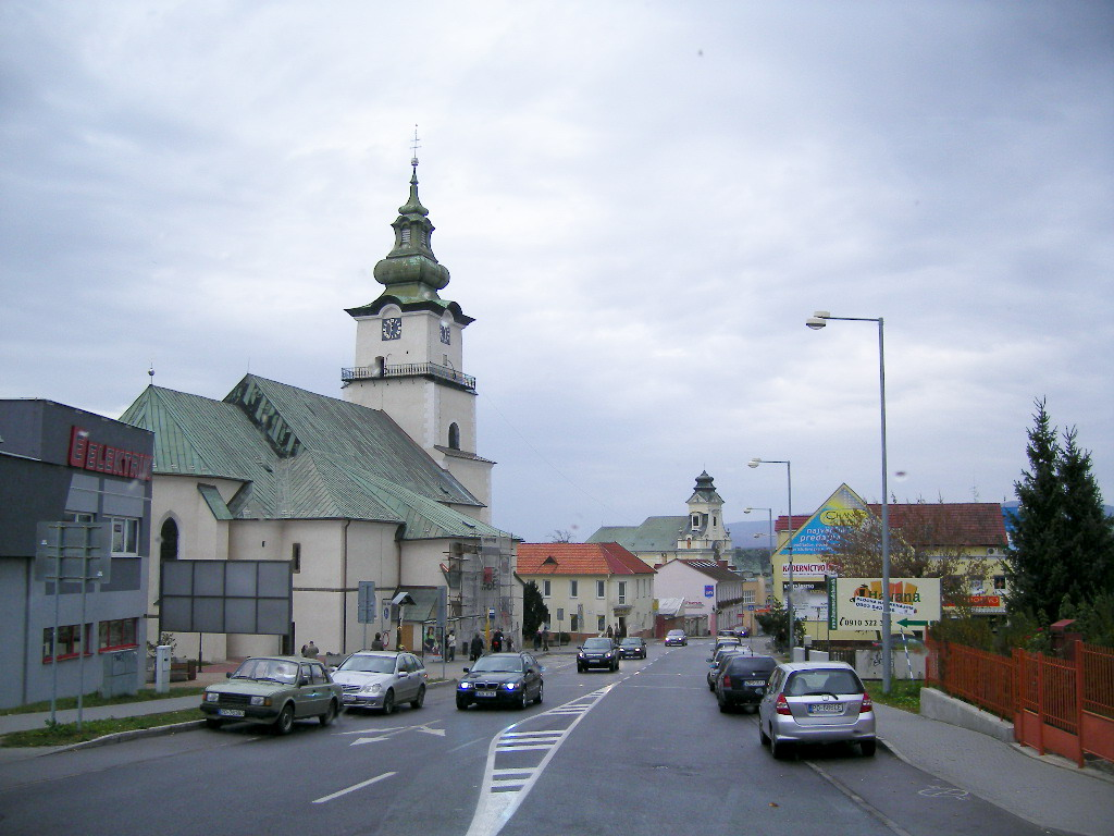 Prievidza This medium shows the protected monument with the number 307-874/0 in the Slovak Republic. This medium shows the protected monument with the number 307-872/2 in the Slovak Republic.